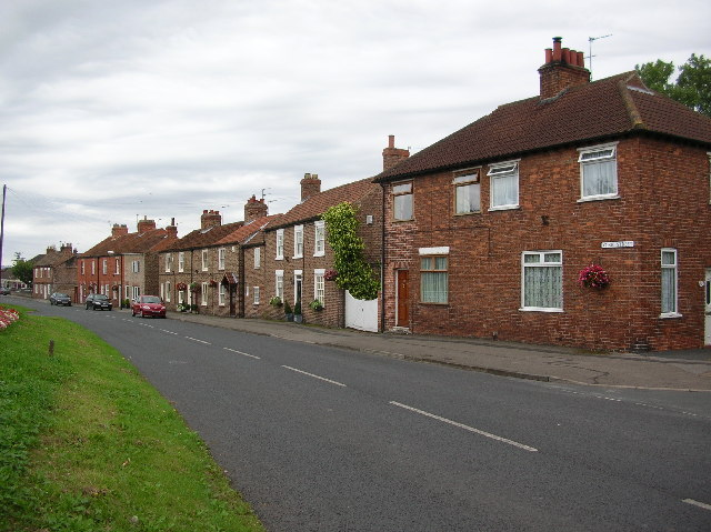 York Street, Dunnington